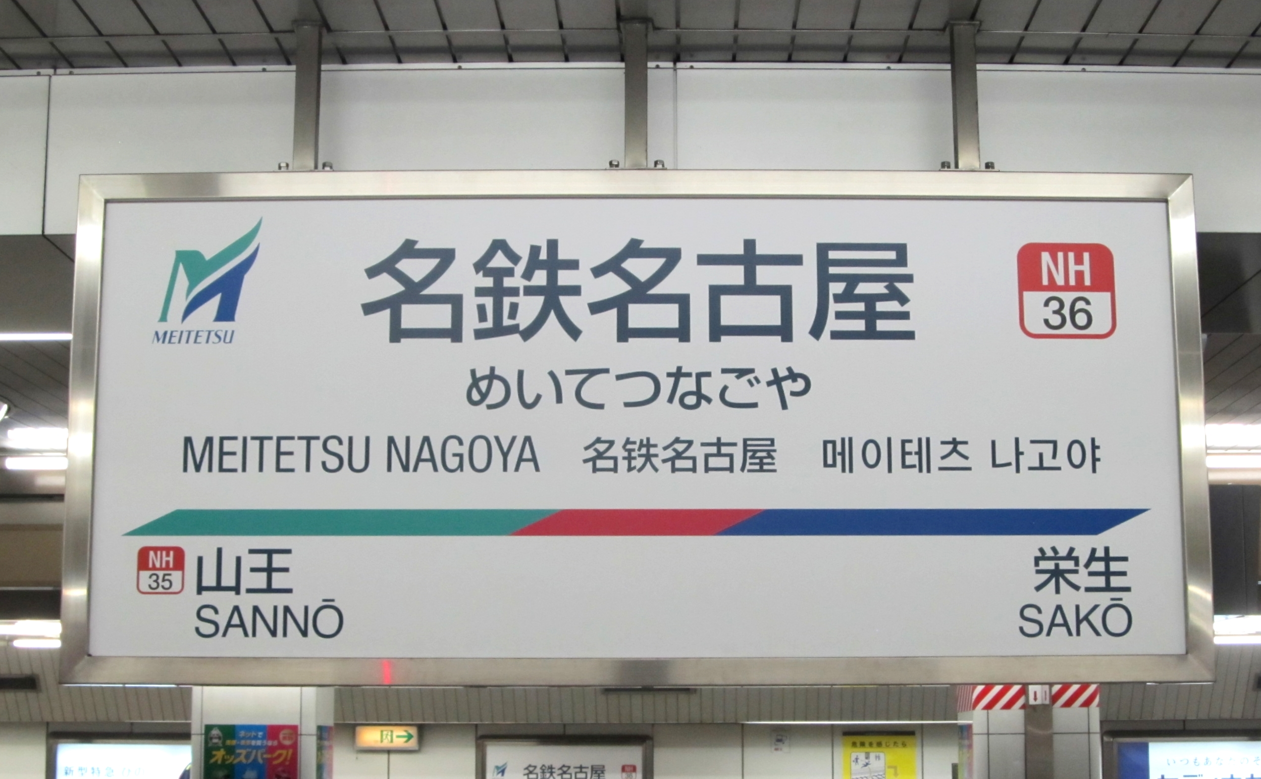 Nagoya Railroad Naoya Main Line Meitetsu Nagoya Station signboard